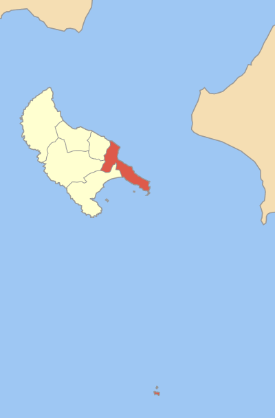 Locator map of Zakynthos municipality (Δήμος Ζακυνθίων) in Zakynthos prefecture (Νομός Ζακύνθου) in Greece.